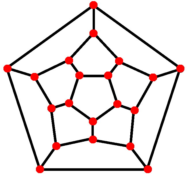 Dodecahedron Schlegel diagram